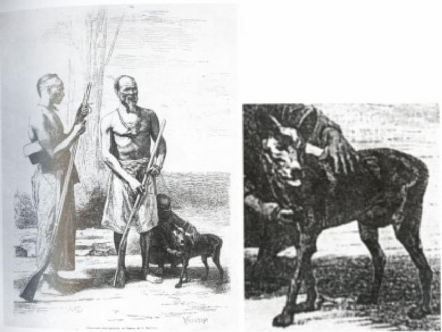 Taken by Great Britain Photographer John Thomson at Taiwan, in 1871. Published by 橫越福爾摩沙